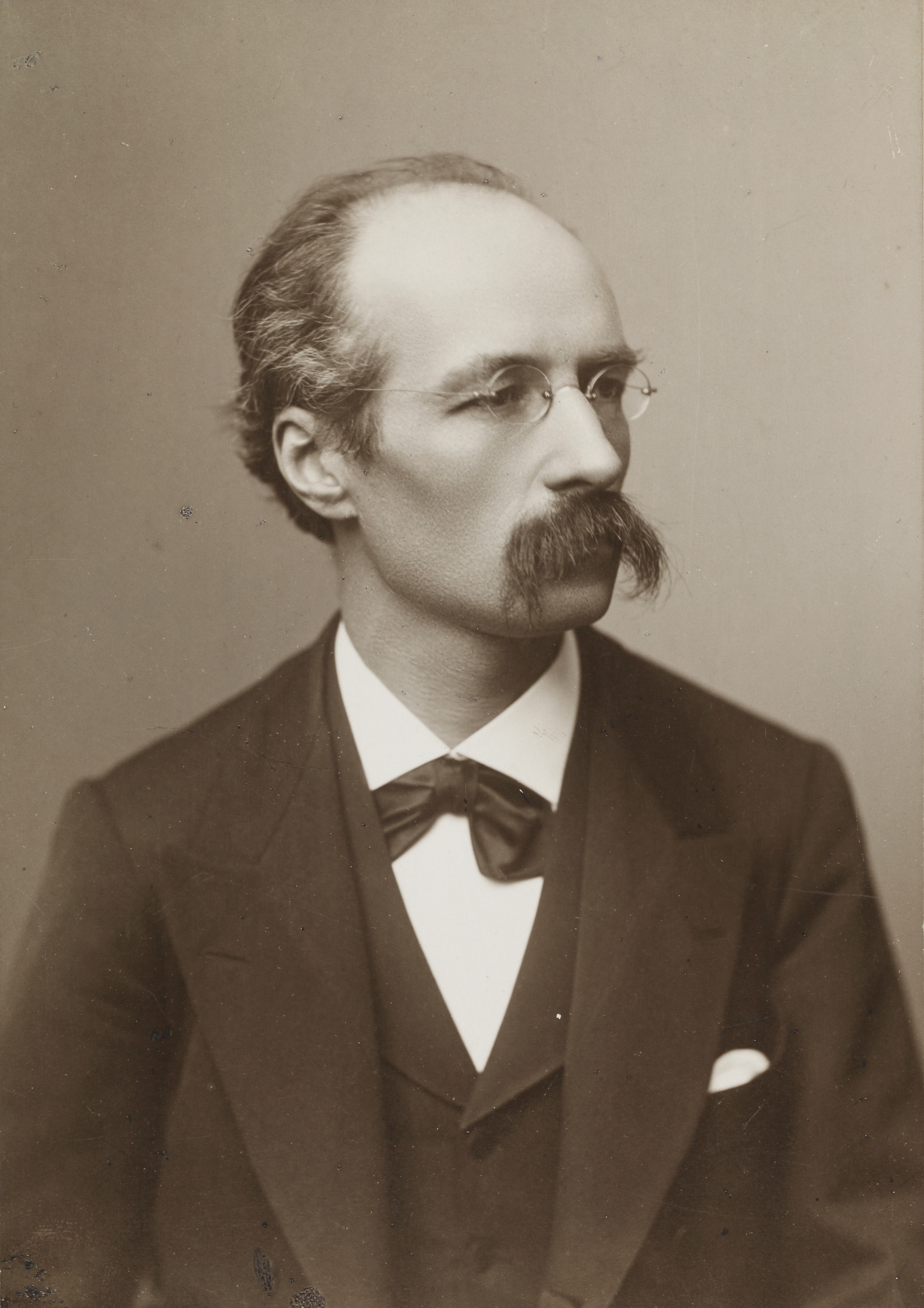 Henri La Fontaine, undated (photography Géruzet Frères, Bruxelles)